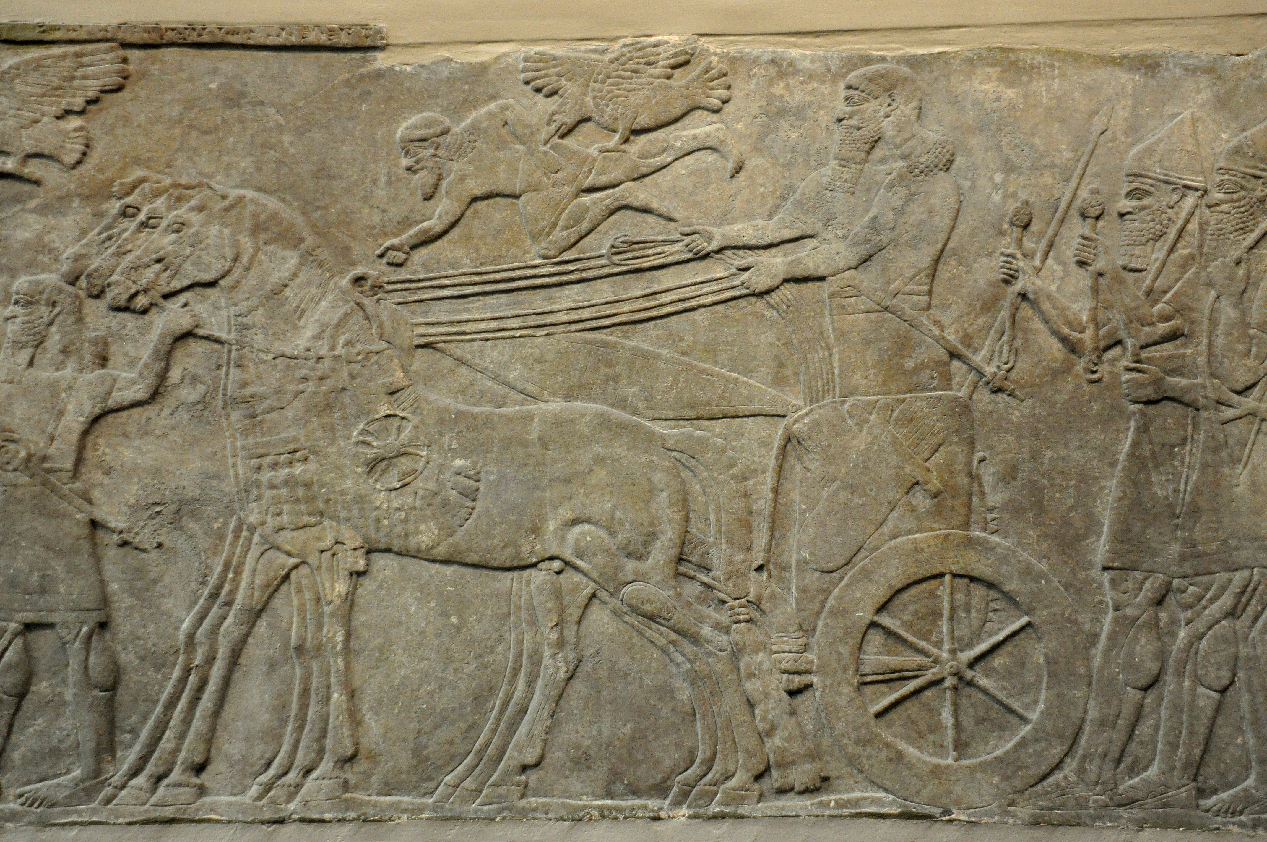 Assyrian war chariot dating back to the reign of Ashurnasirpal II, 865-860 BCE. Detail of a gypsum wall relief from the North-West Palace (Room B, panel 13) at Nimrud (Kalhu), modern-day Iraq, currently housed in the British Museum, London.